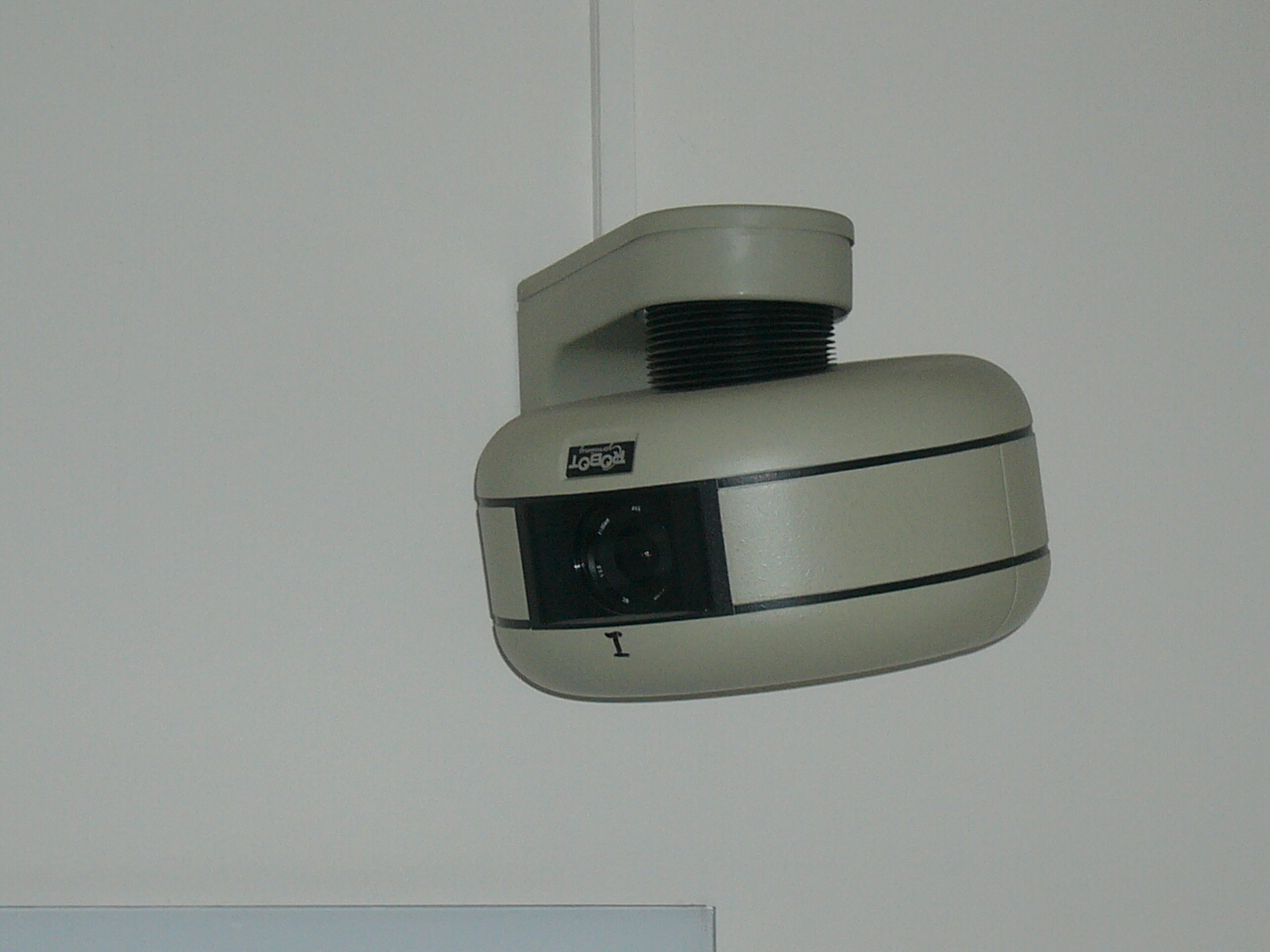 Armoured video camera in a bank in Lower Bavaria.